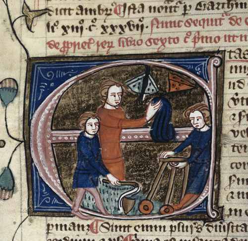 original caption at bl.uk: Detail of a historiated initial 'E'(tas) of children playing with toys and catching butterflies.